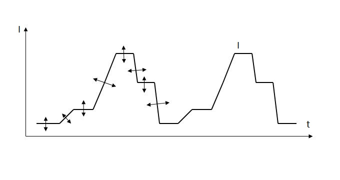 TwinPulseWelding